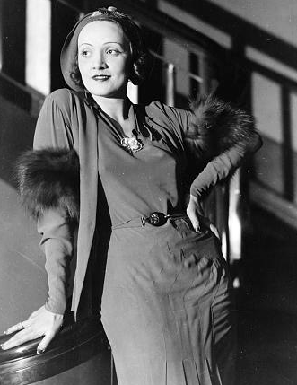 A young Marlene Dietrich